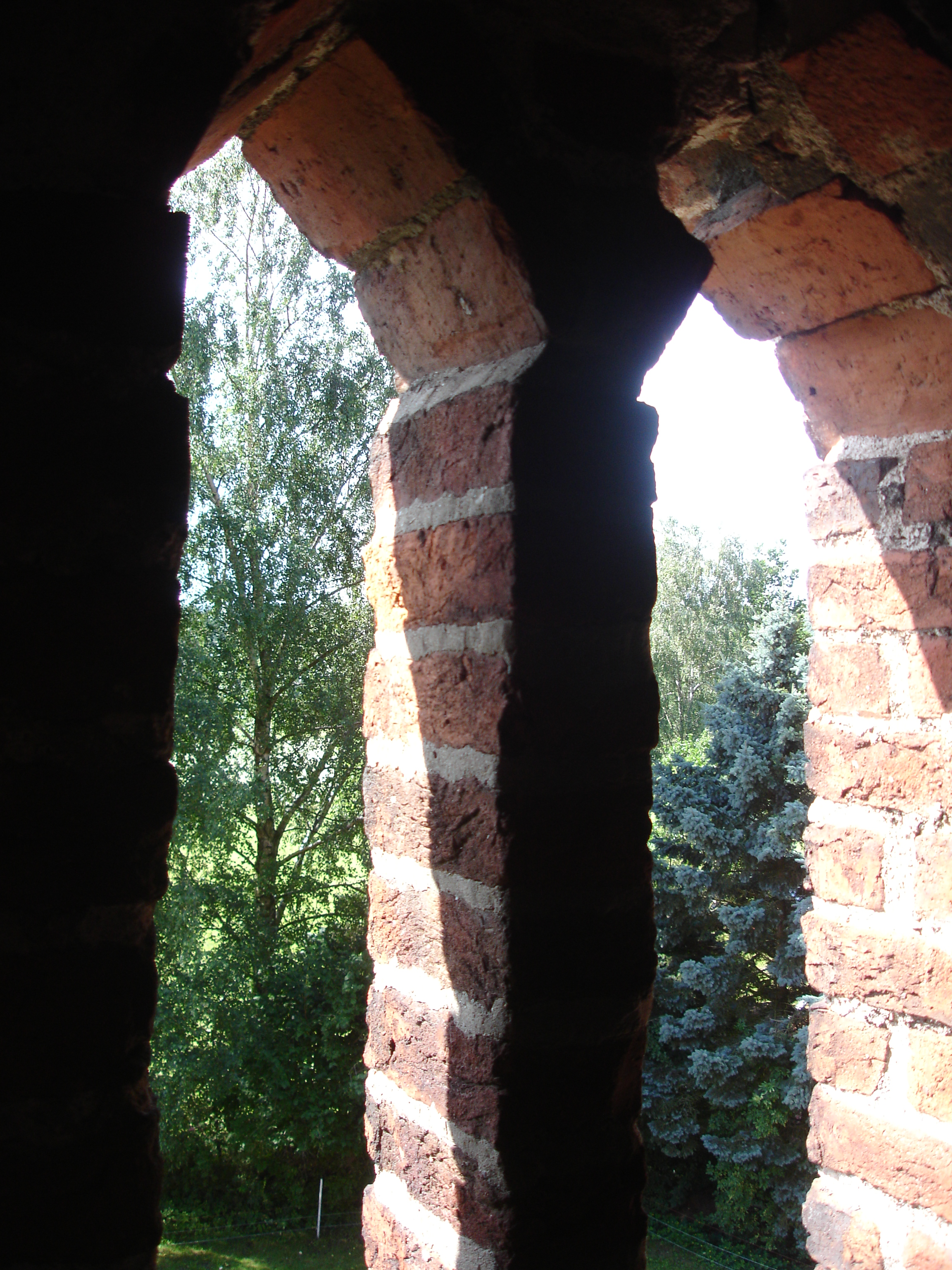 Church in Bössow, district Nordwestmecklenburg, Mecklenburg-Vorpommern, Germany